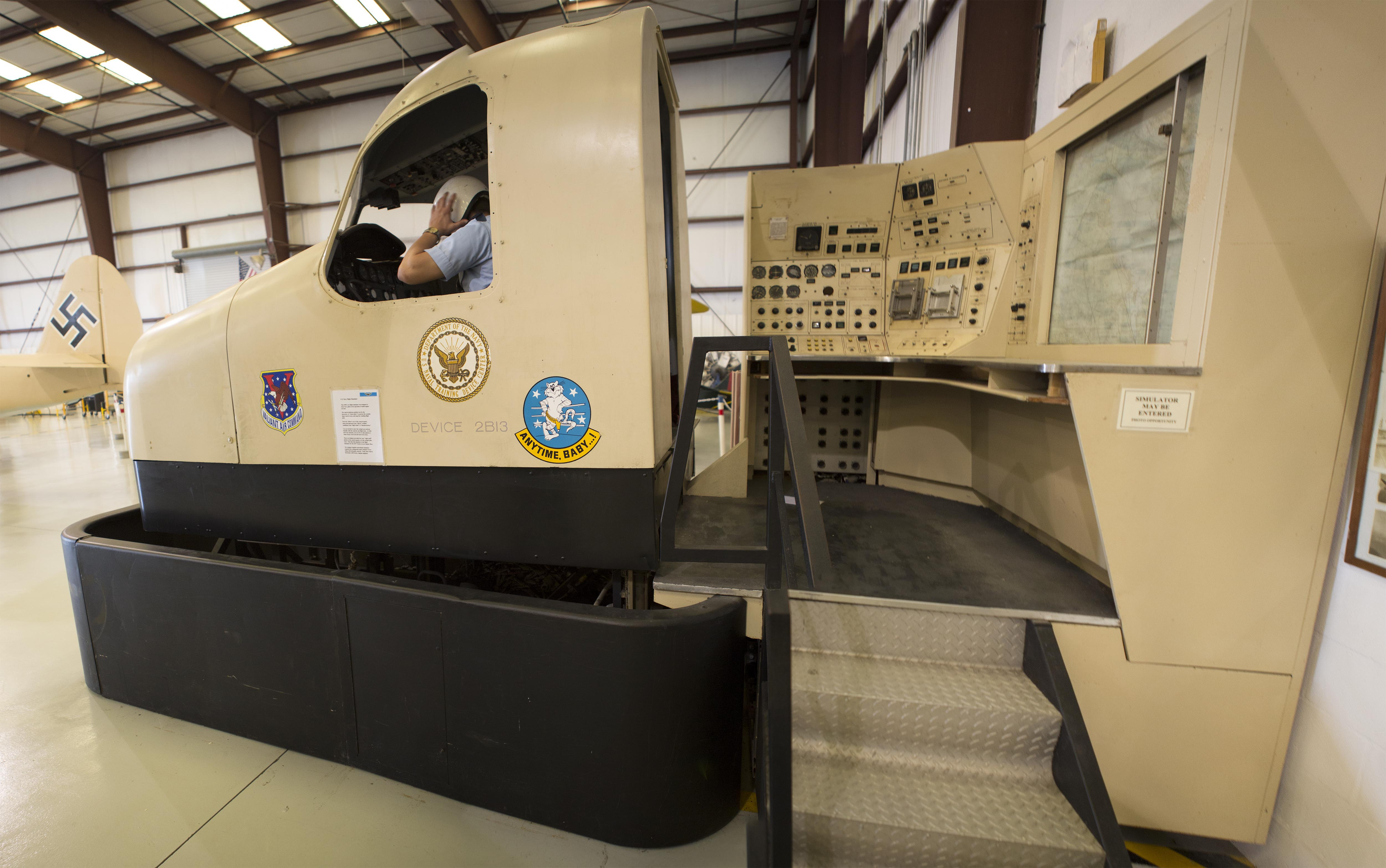 The US Navy's Multi-engine Instrument Training Device 2B13, was built to train S-2F pilots to fly the Grumman S-2F anti-submarine aircraft on instruments (under IFR conditions). The device pictured sits in the hangar of the Valiant Air Command's Warbird Museum in Titusville, Florida when the photo was taken.